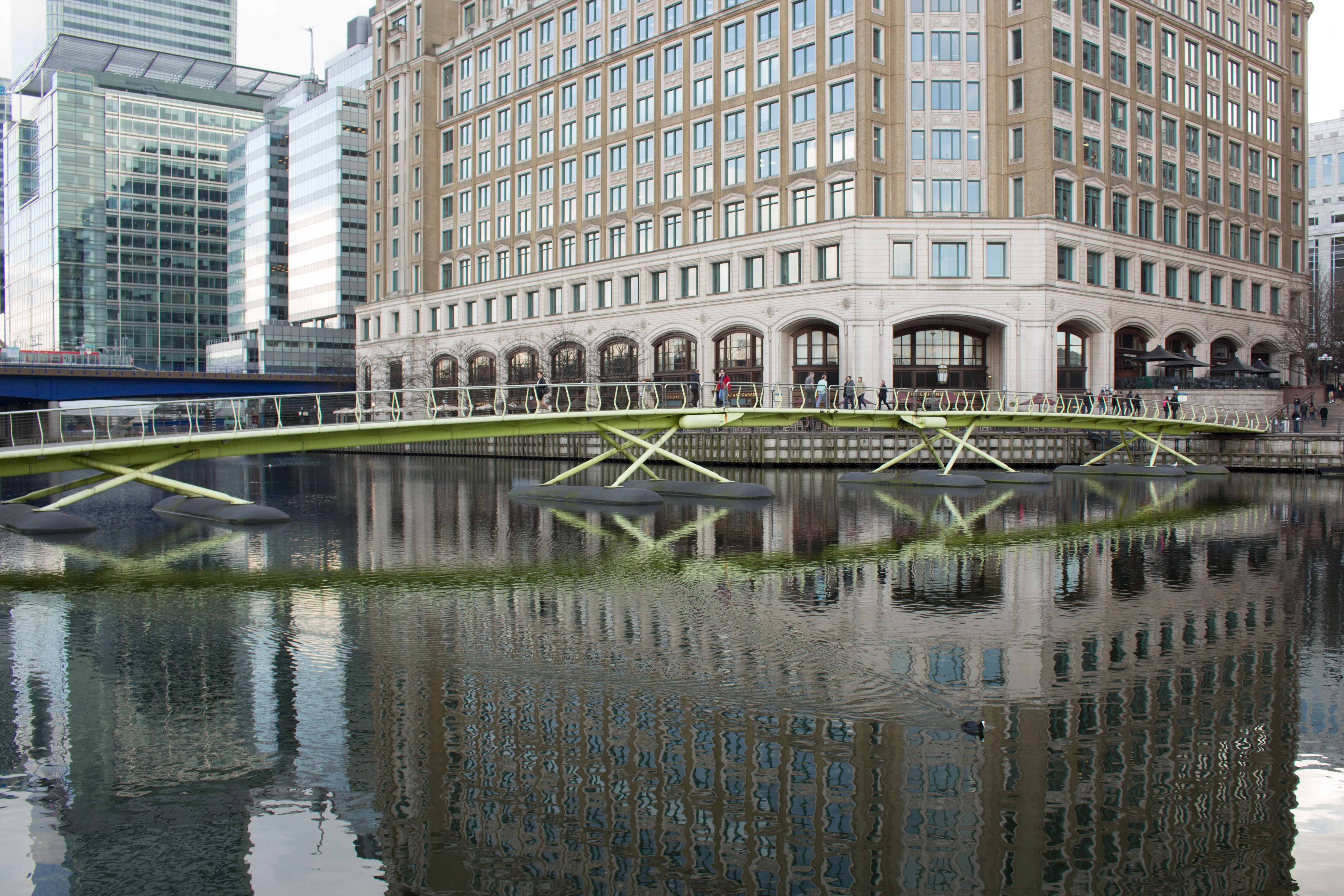 Floating bridge and 5 North Colonnade